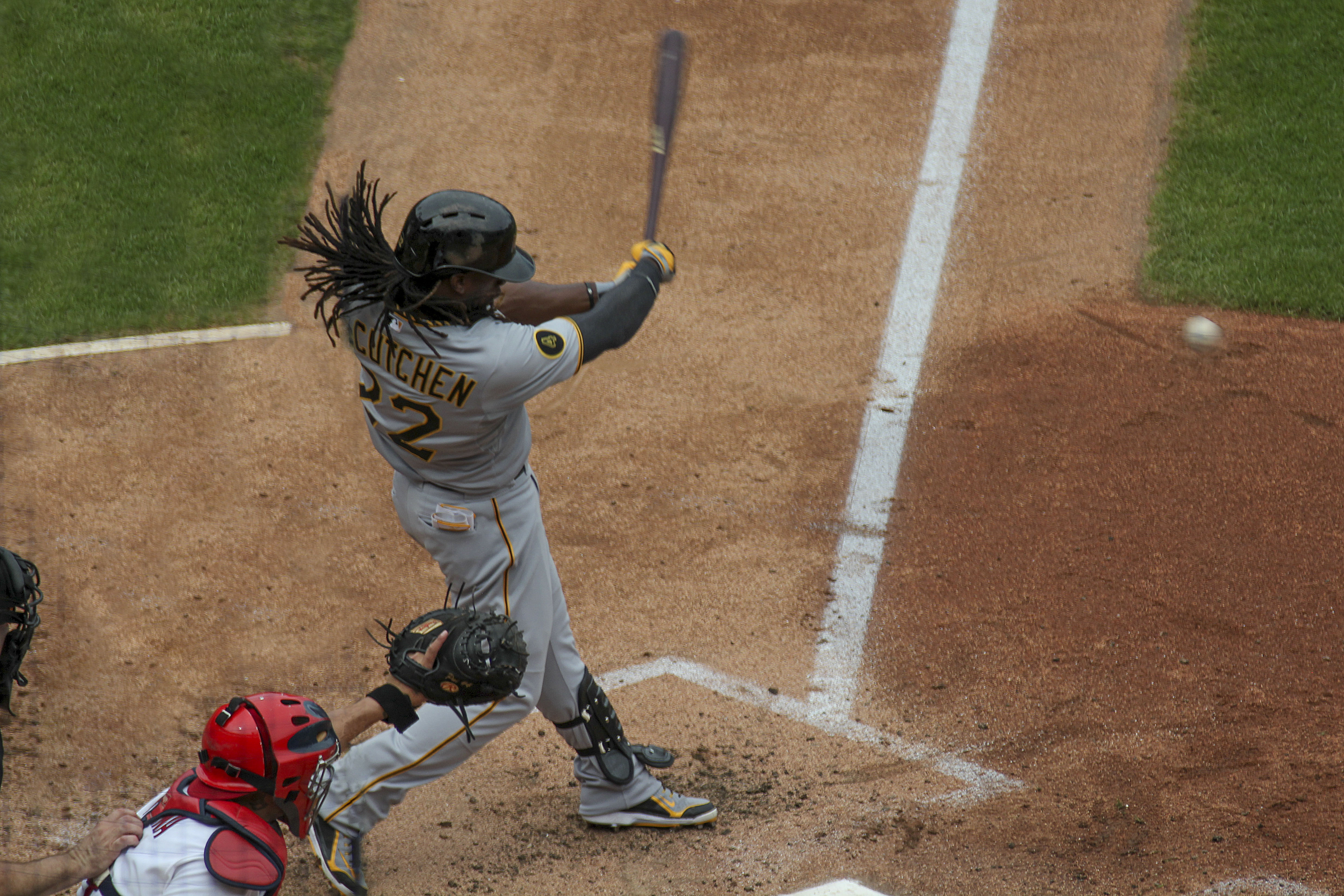 Andrew McCutchen of the pittsburgh Pirates